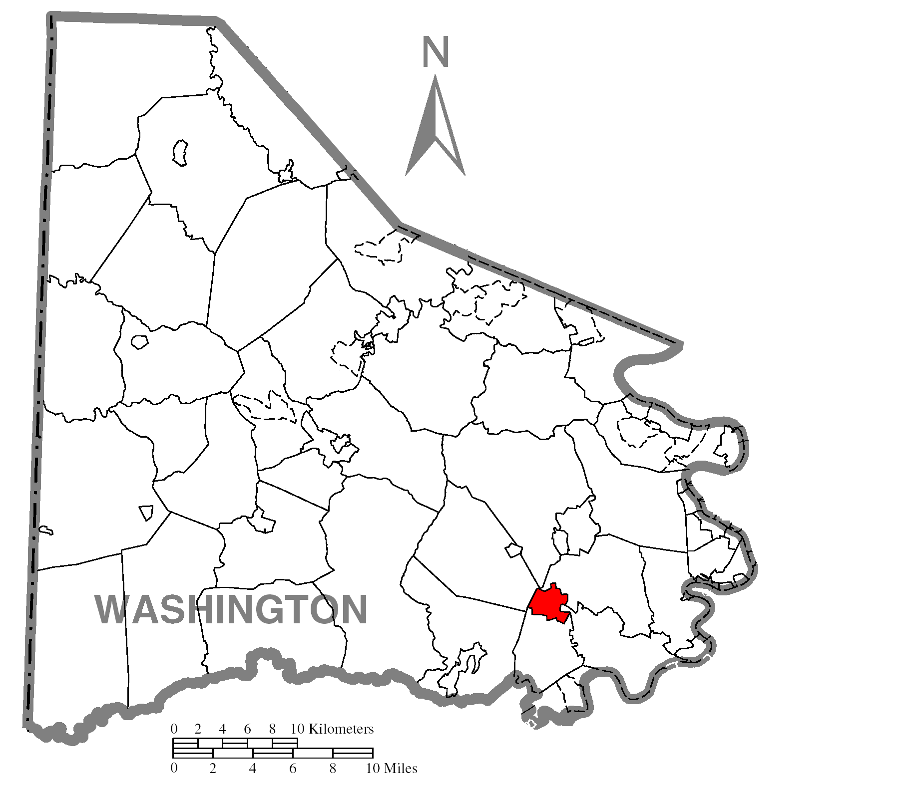 Map of Washington County higlighting Beallsville.